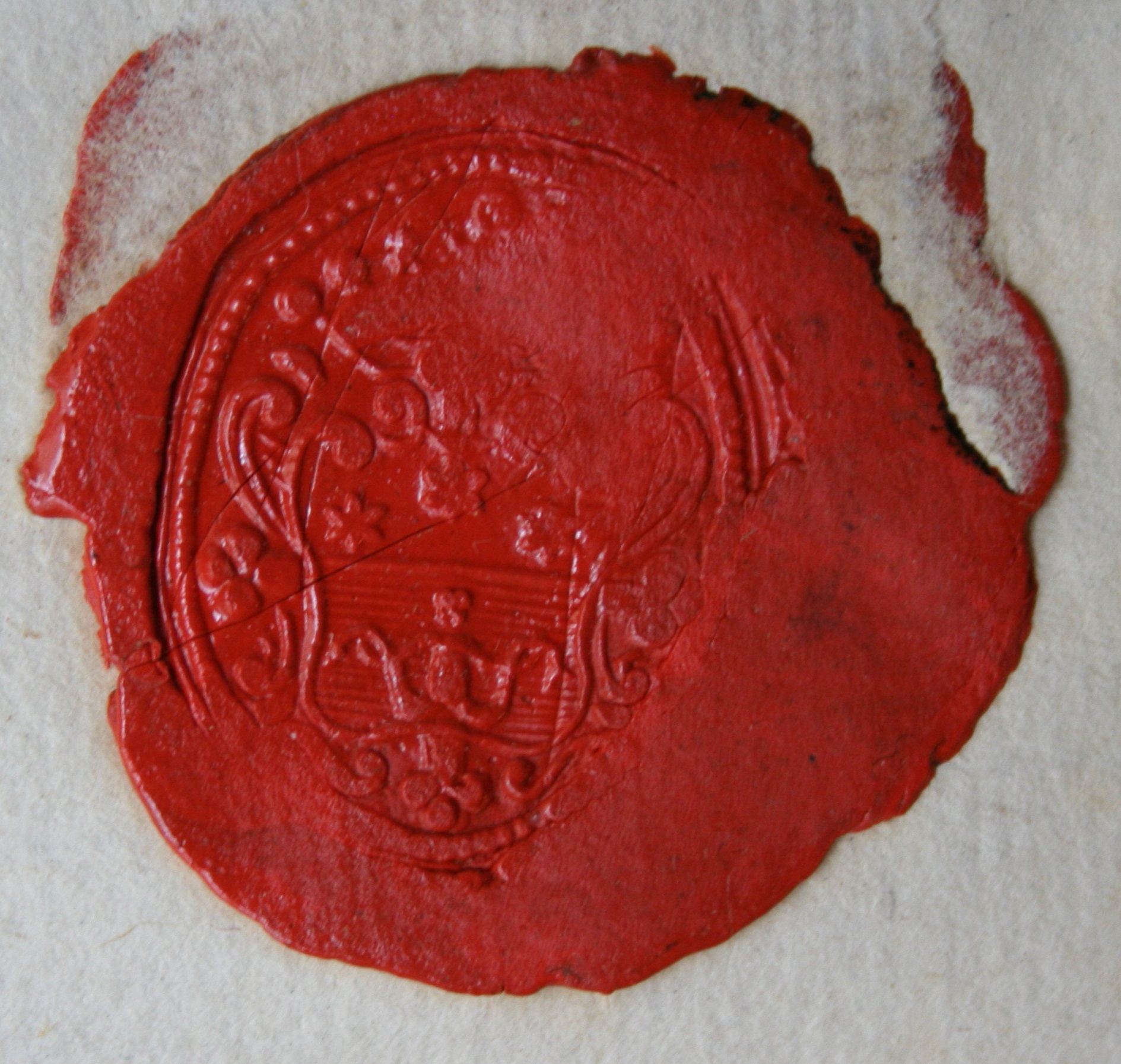 Blason Freylin